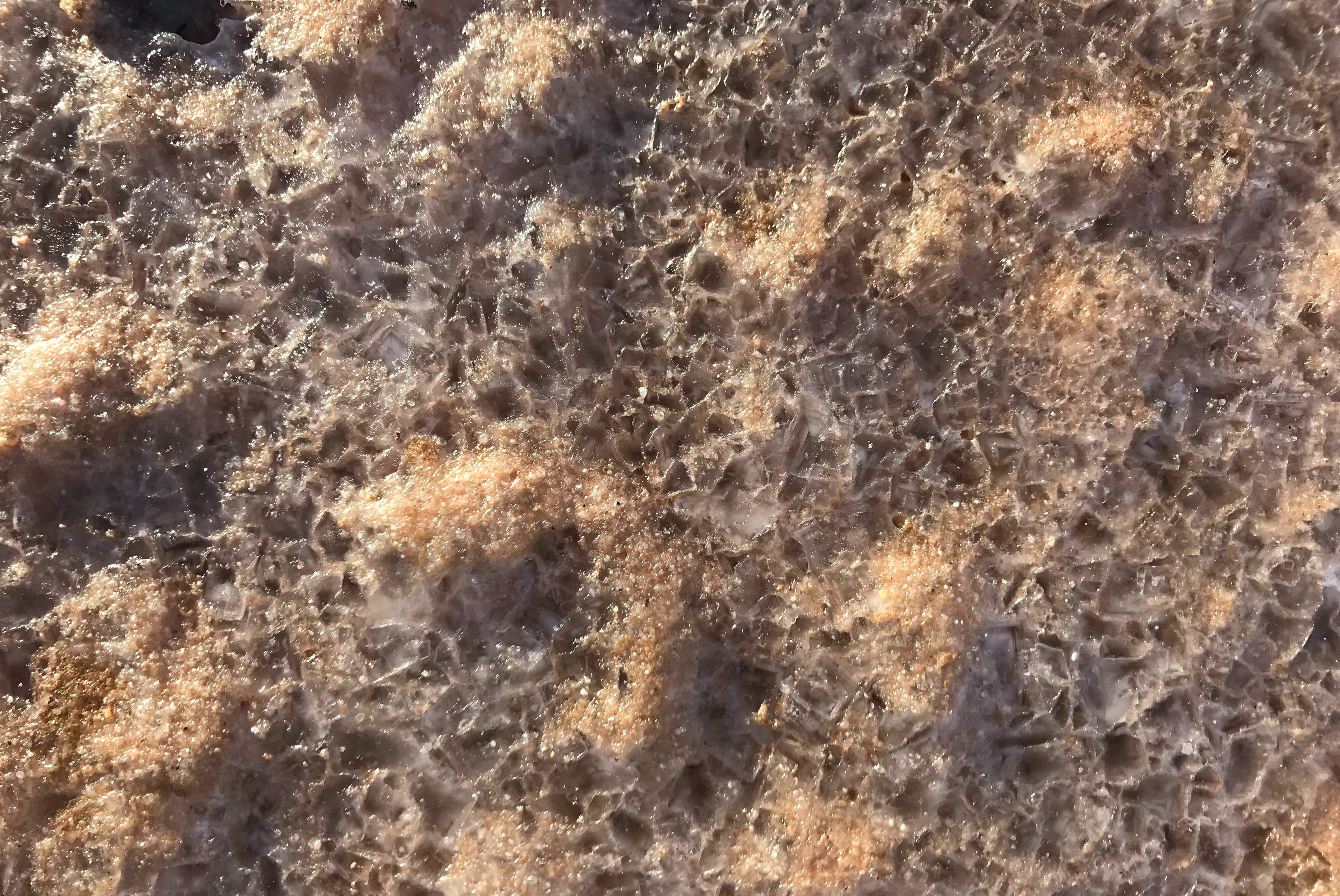 Lake Tyrrell's solid salt floor that can be found in some areas in winter when ground water percolates to the surface.